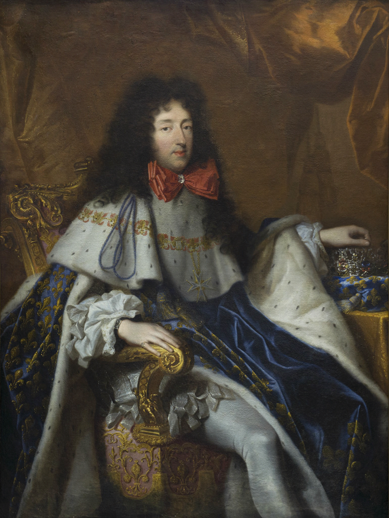 Philippe of France, Duke of Orléans and brother of Louis XIV, bearing the cross of the Order of the Holy Spirit